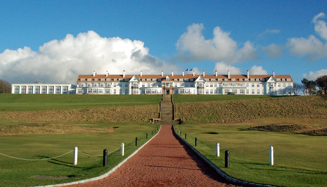 Trump Turnberry Hotel. This famous landmark was built in 1906 as the Turnberry Station Hotel on the Glasgow & South-Western Railway’s line between Ayr and Girvan. It was requisitioned as a hospital during both World Wars to support the nearby airbase. Remains of the old runways are still visible beside the golf courses. The estate was bought by Donald Trump in 2014, when the hotel was renamed Trump Turnberry.